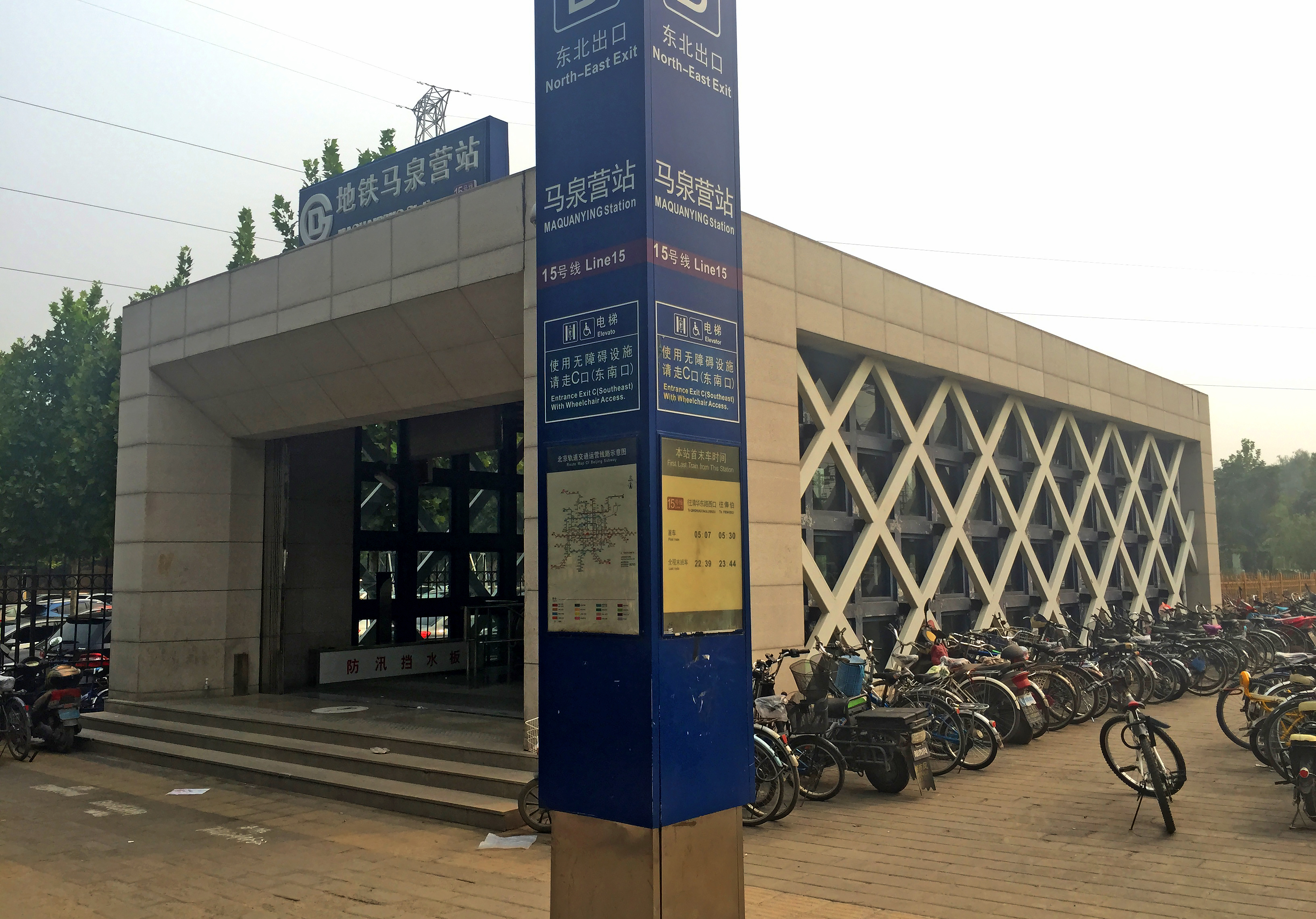 Closest access to Scitech Outlet.